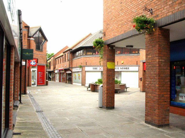 Selby; Market Cross The Market Cross was built on the site of James Street Methodist Chapel